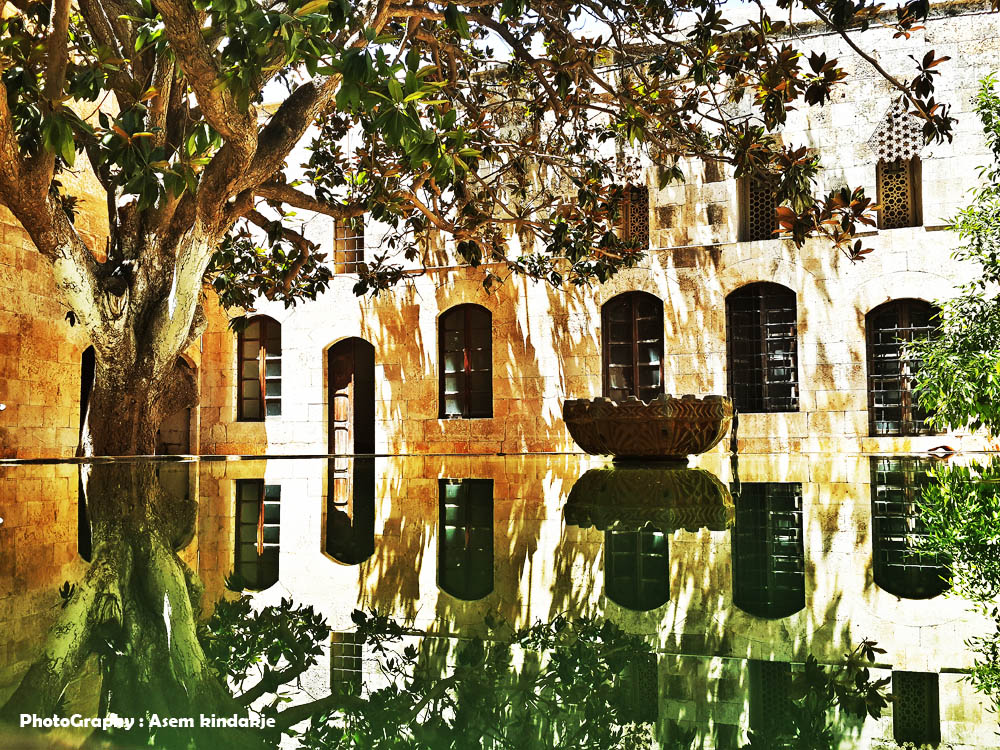 Water reflexe inside Azem Palace